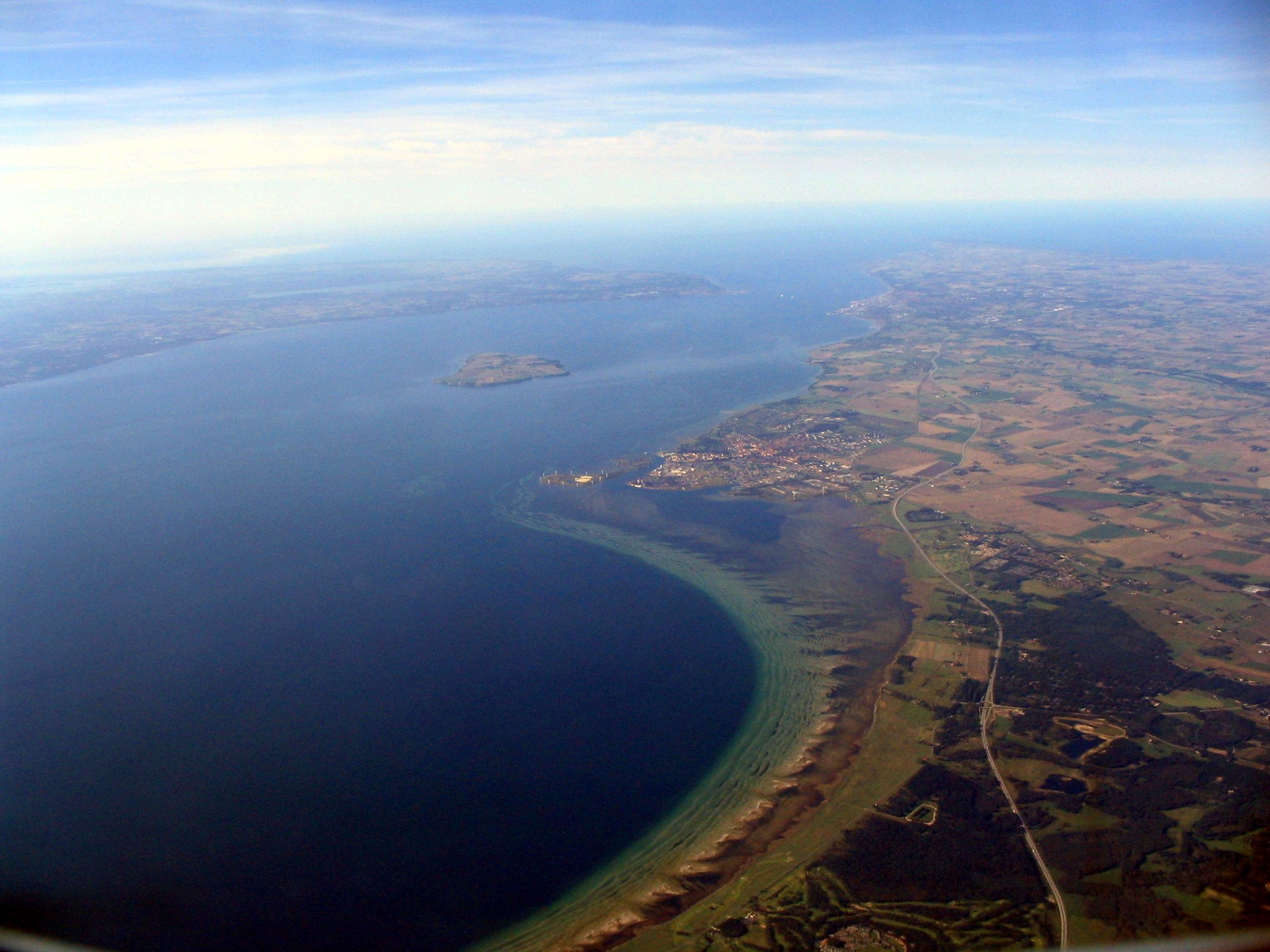 Aerial view of Oresund strait, and the city of Landskrona in Skåne County, Sweden.